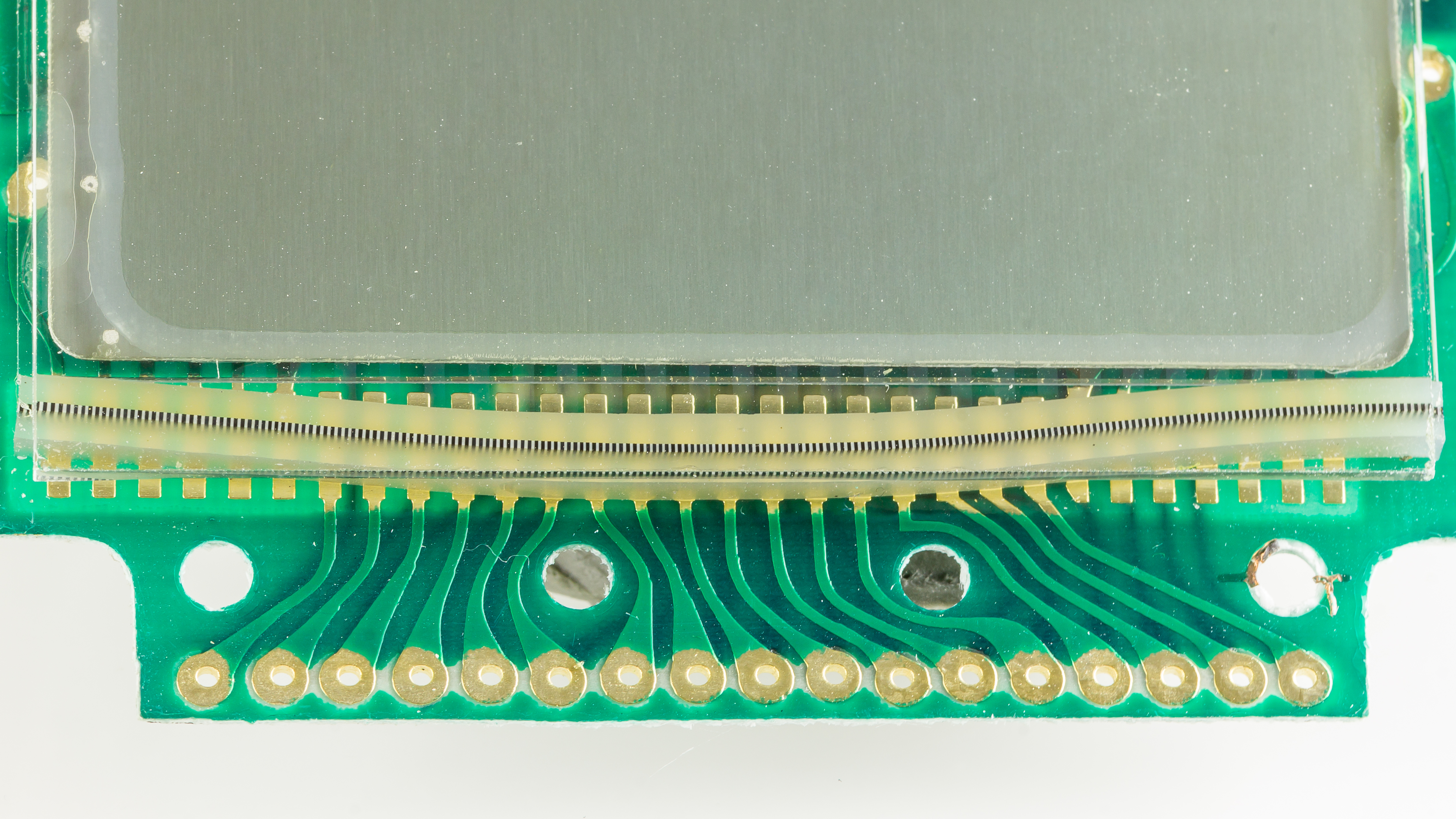 Privileg LC12000 Super Timer - display conected with a elastomeric connector to the printed circuit board